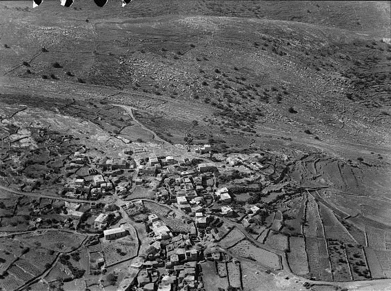 Aerial view of Beit Ur al-Fauqa (Upper Beth Horon)